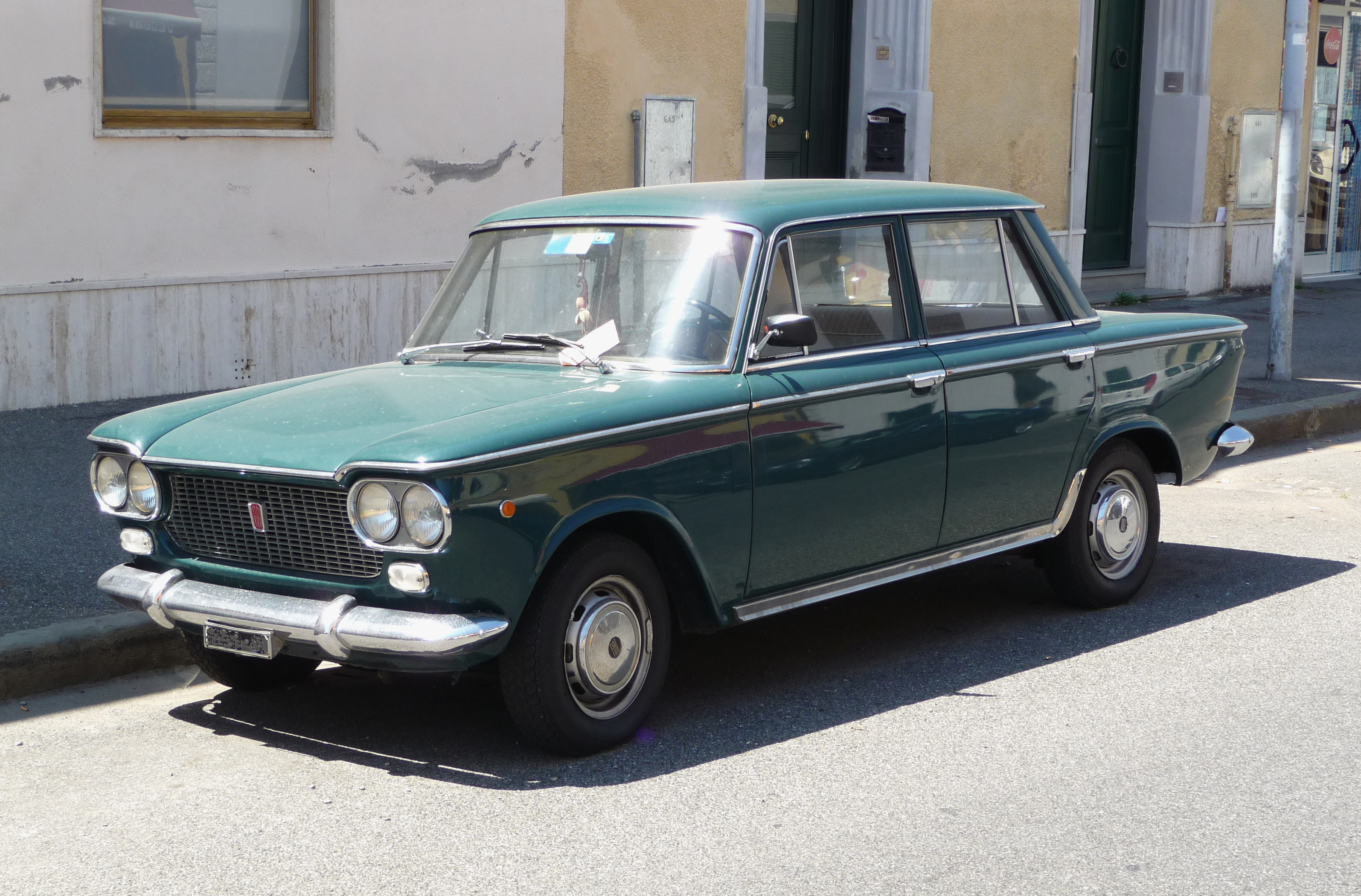 Fiat 1300